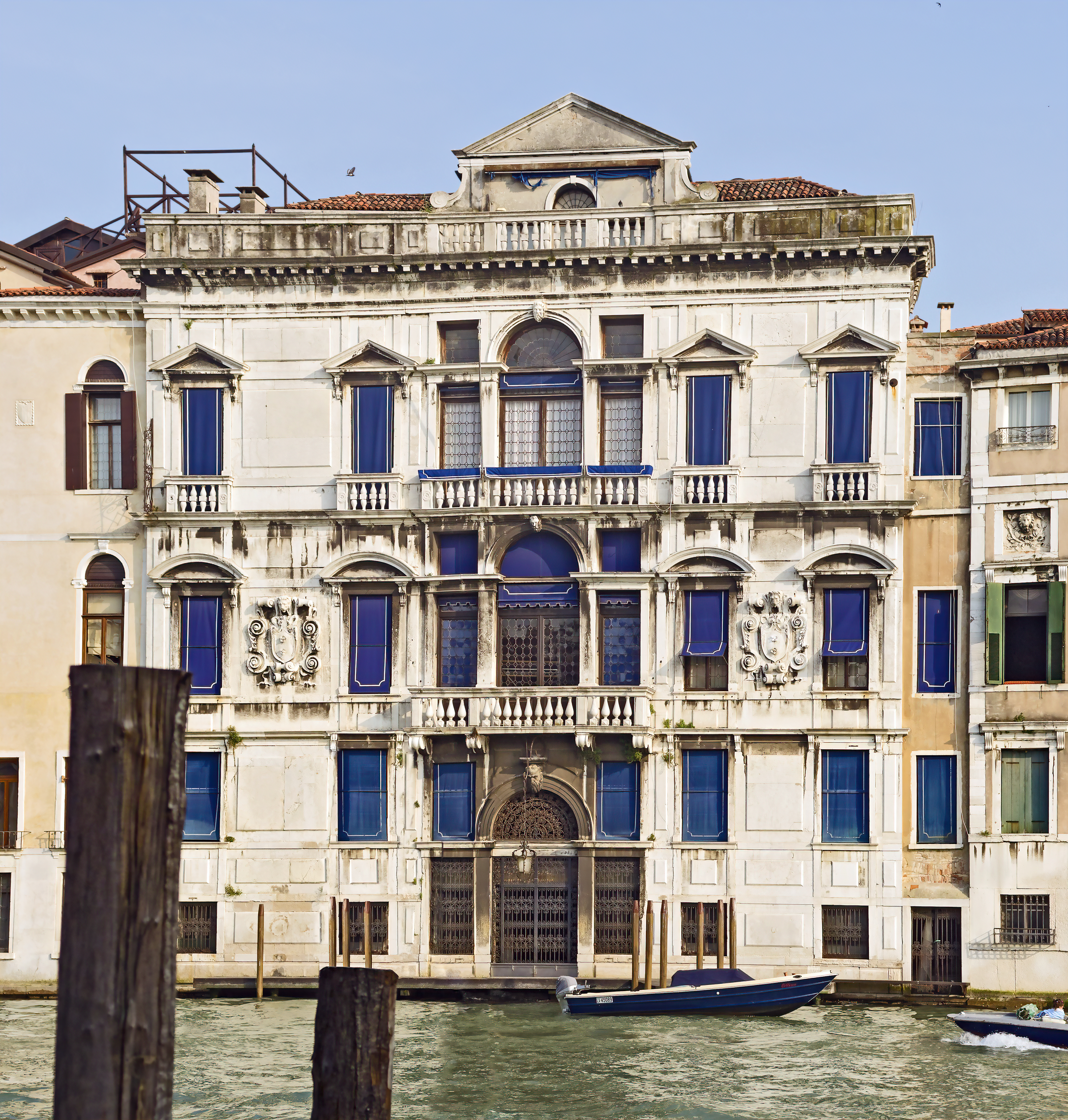 Palace Mocenigo Casa Nuova, the facade on the Grand Canal, Venice